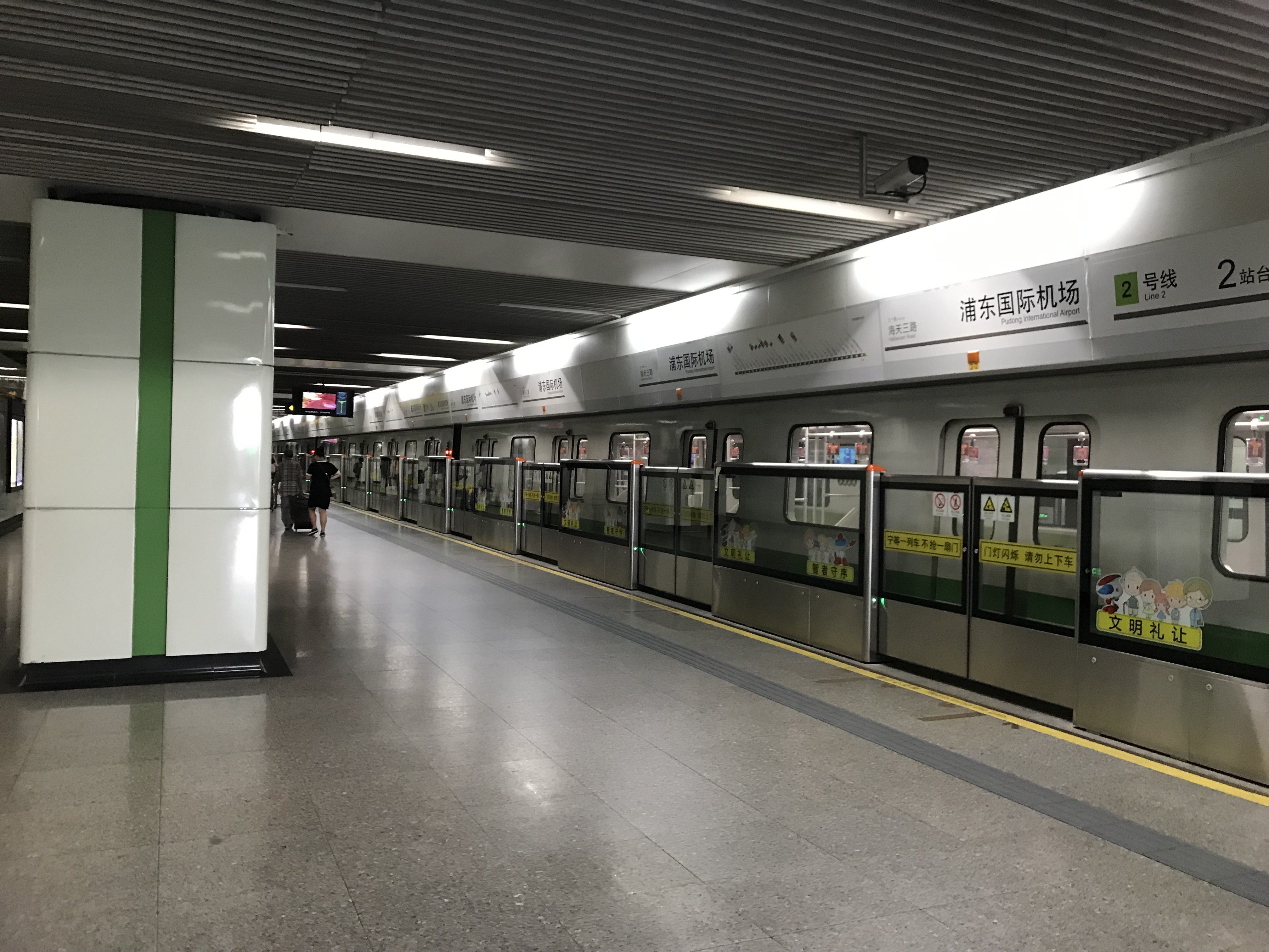 201908 Eastbound Platform of Metro PVG Station with Low-Height Platform Door